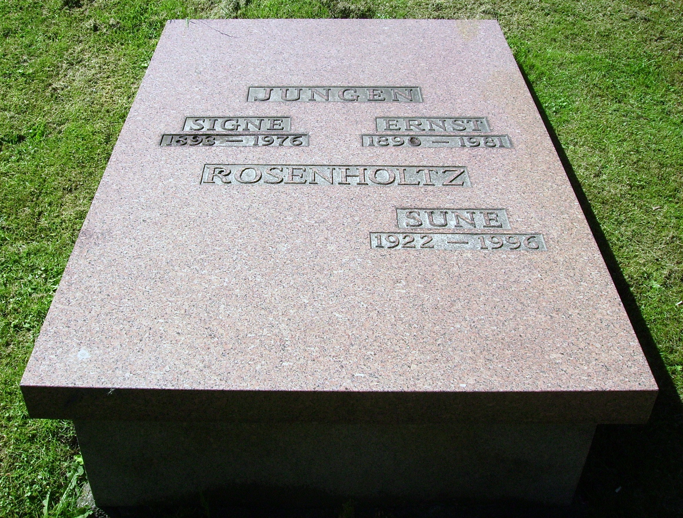 Picture of Ernst Jungen's grave at Örgryte nya kyrkogård in Gothenburg